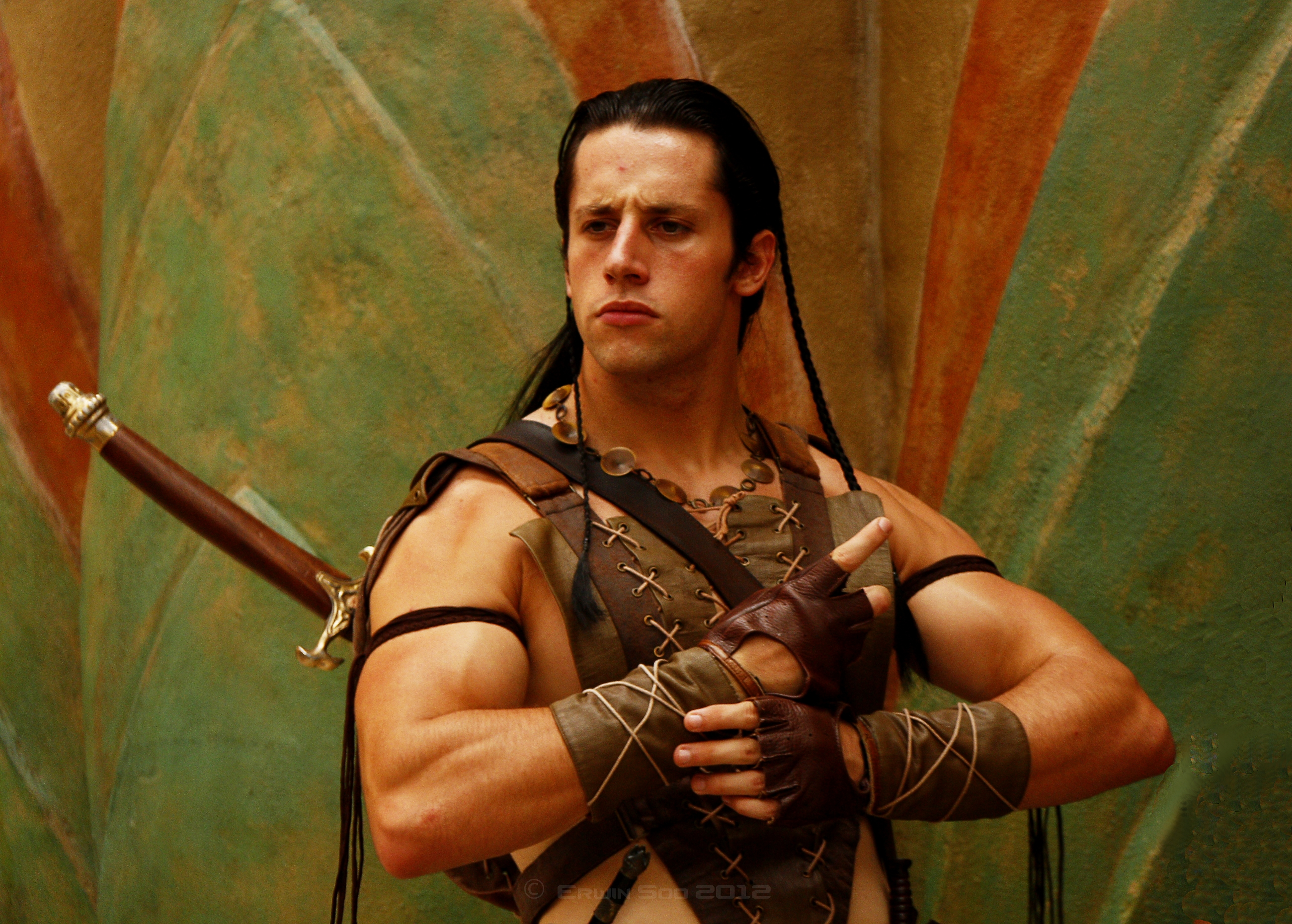 John Carter at Universal Studios Singapore